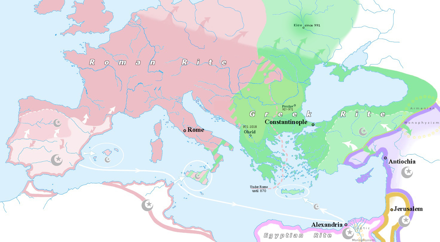 Map of the Pentarchy, year 1000. Synthesis between the two maps cited. White interior: conquered by the Islamic Caliphates. White lined: temporarily occupied by the Islamic Caliphates or Emirates. Arrows: expansion since year 800.